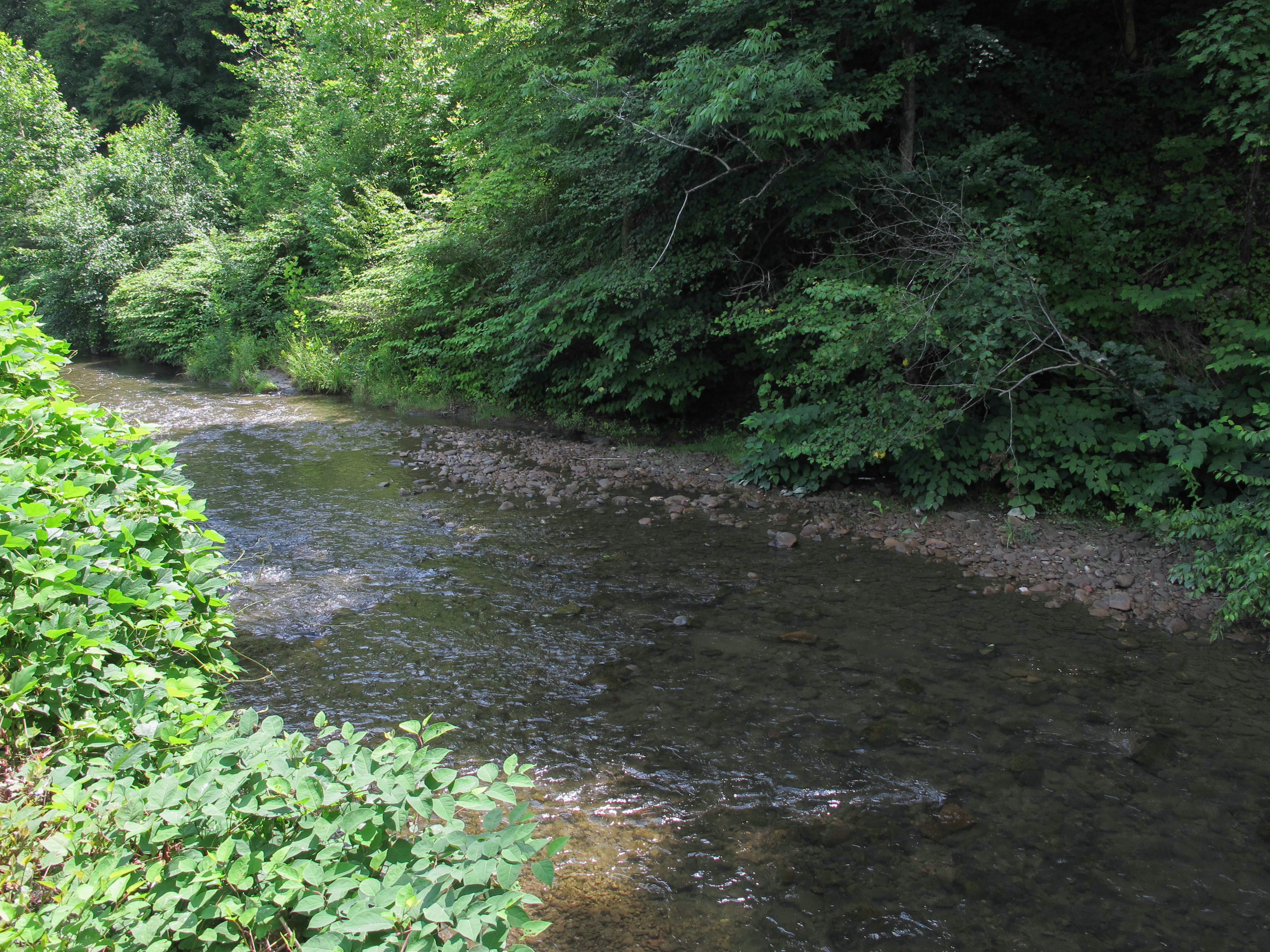 Armstrong Creek in Kimberly, West Virginia, as viewed from Armstrong Creek Road (County Road 61/24), opposite Farley Road.